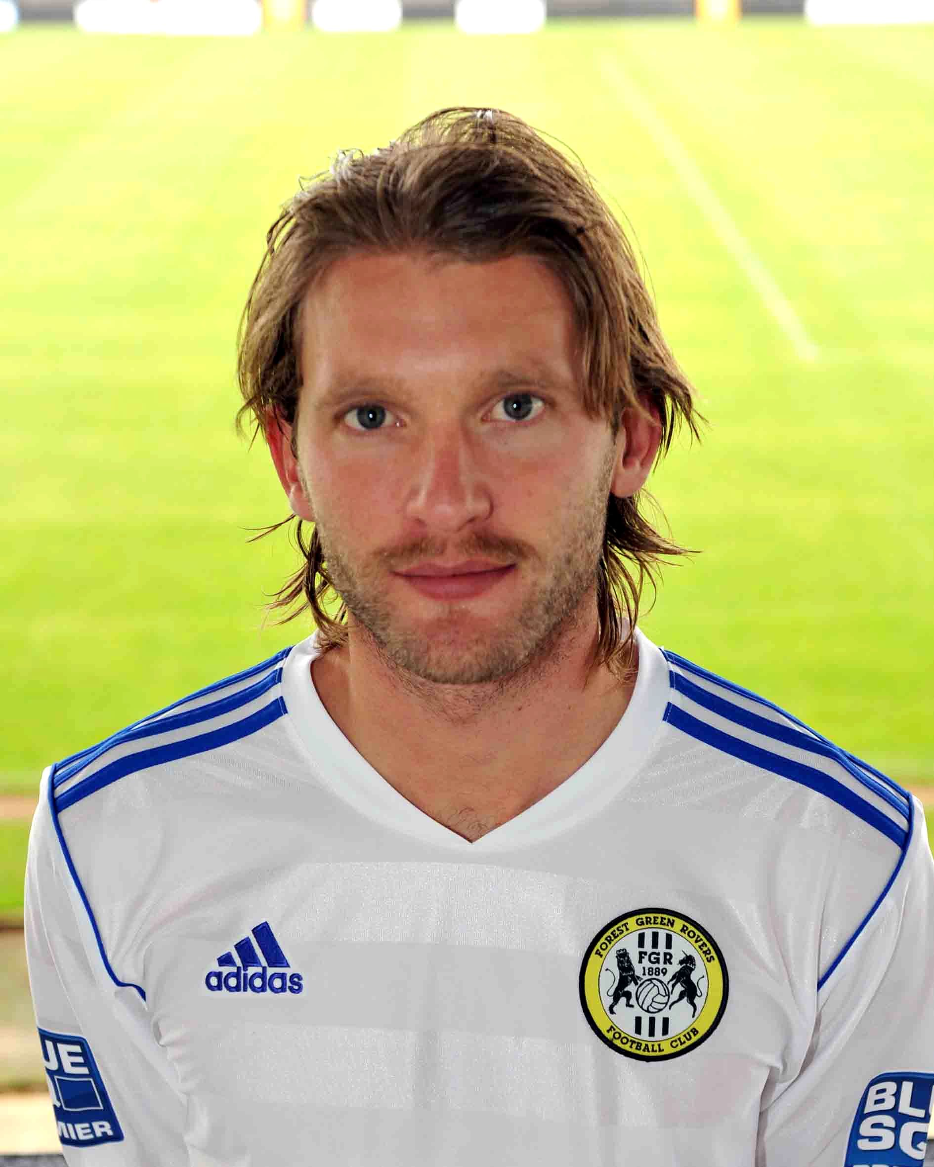 Matt Bullman is a goalkeeper for Forest Green Rovers.